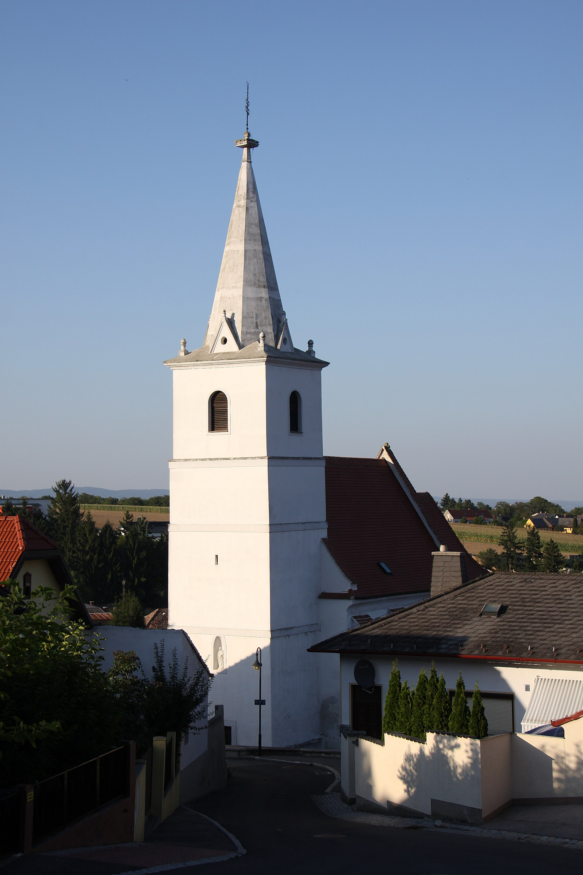 Parish church holy Ann - Draßburg Object location47° 44′ 39.83″ N, 16° 29′ 16.99″ E